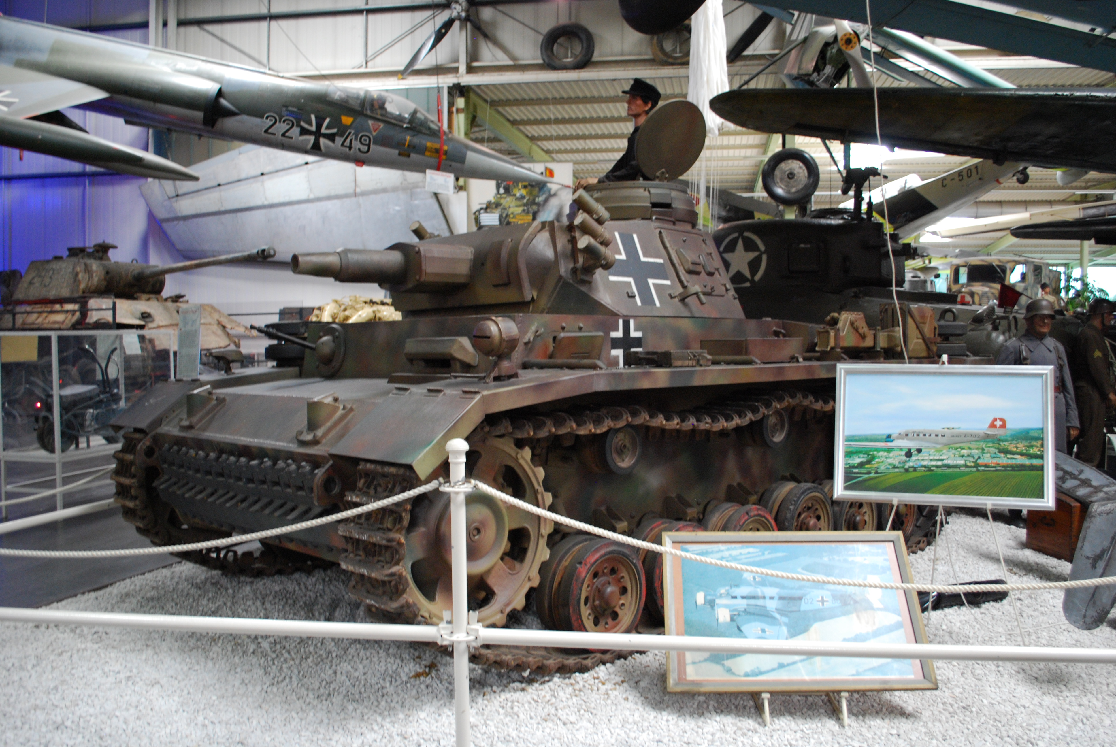 PzKpfw III Ausf G (SdKfz 141) medium tank with 5.0 cm gun at the Auto & Technik Museum, Sinsheim, 6/11.